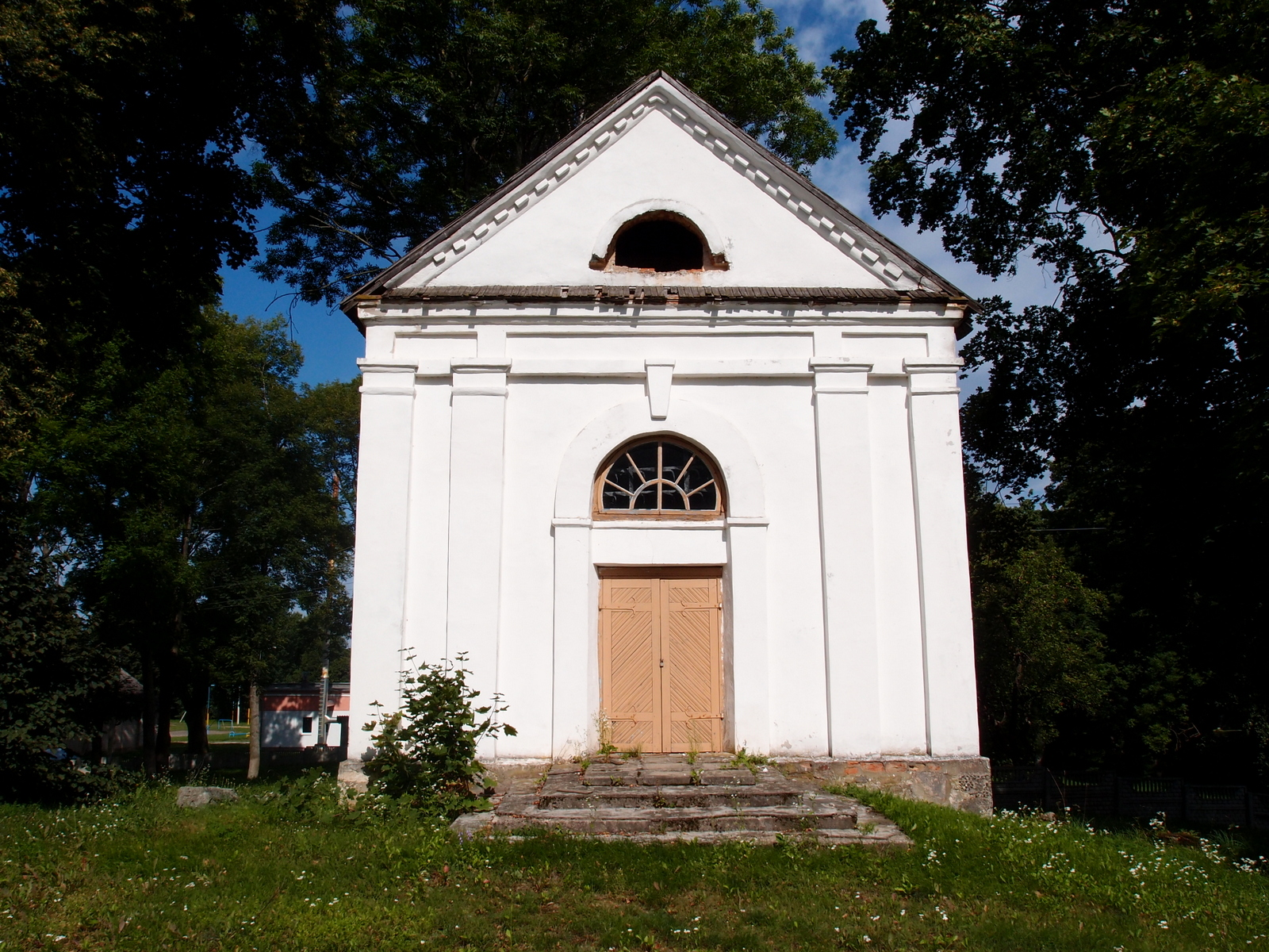 The tomb in Choŭchlava